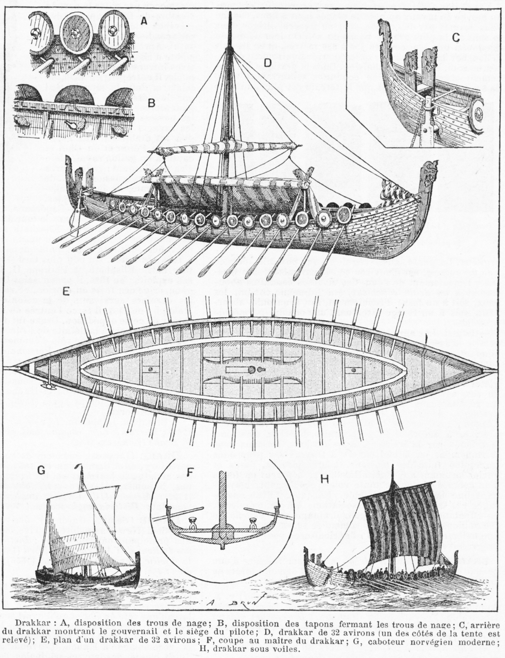 The Drakkar descrip.